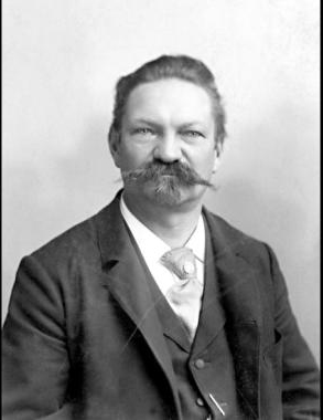 Portrait of the painter Friedrich Wilhelm Heine